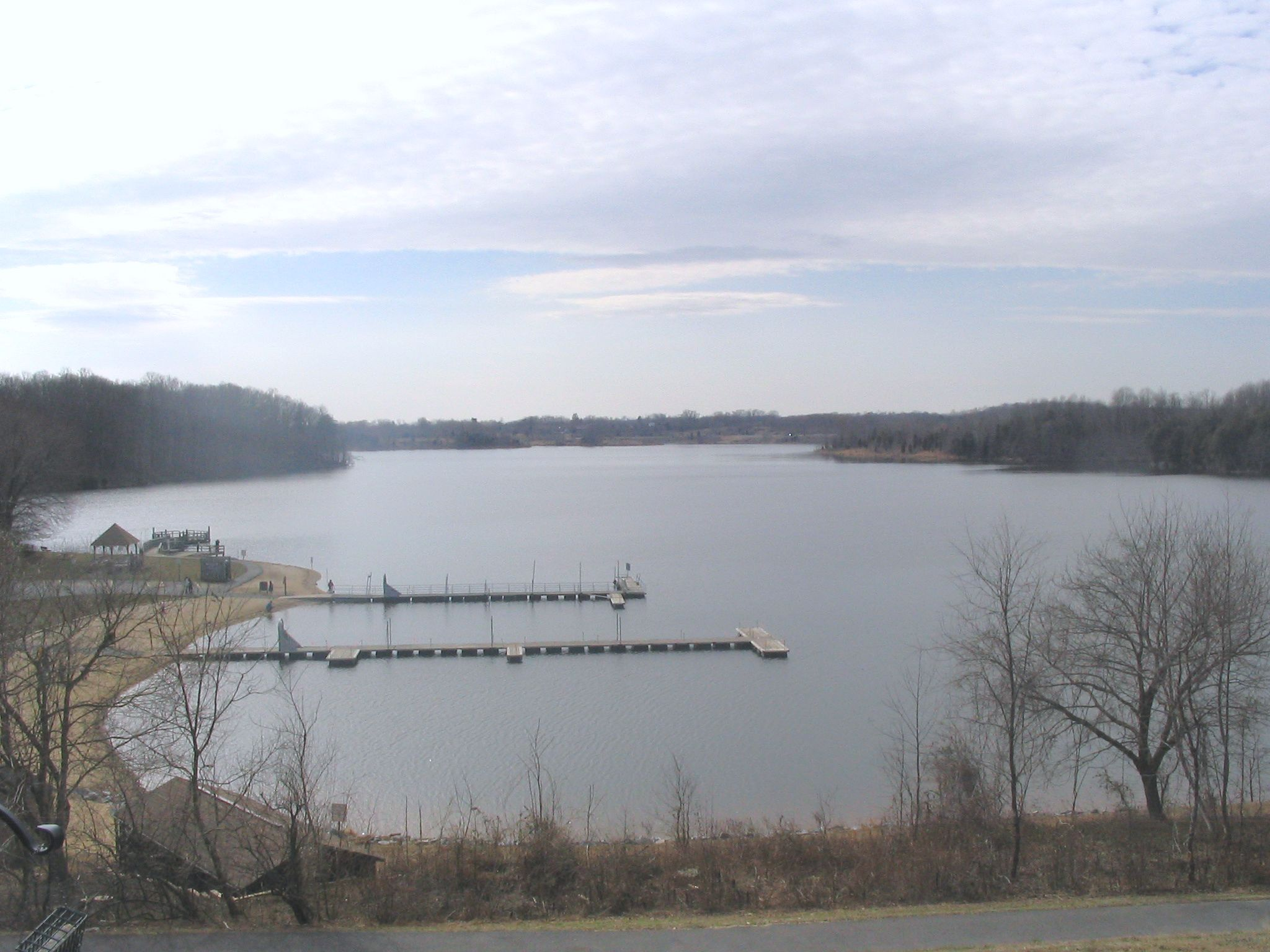 View of Little Seneca Lake, Boyds, Maryland.